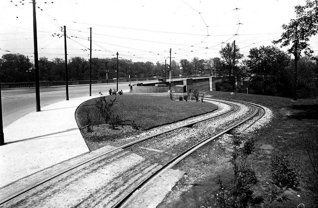 Viaduct Loop, looking north-east. Former streetcar loop at Bloor Street East and Parliament Street in Toronto. Now Bloor - Parliament Parkette, City of Toronto.